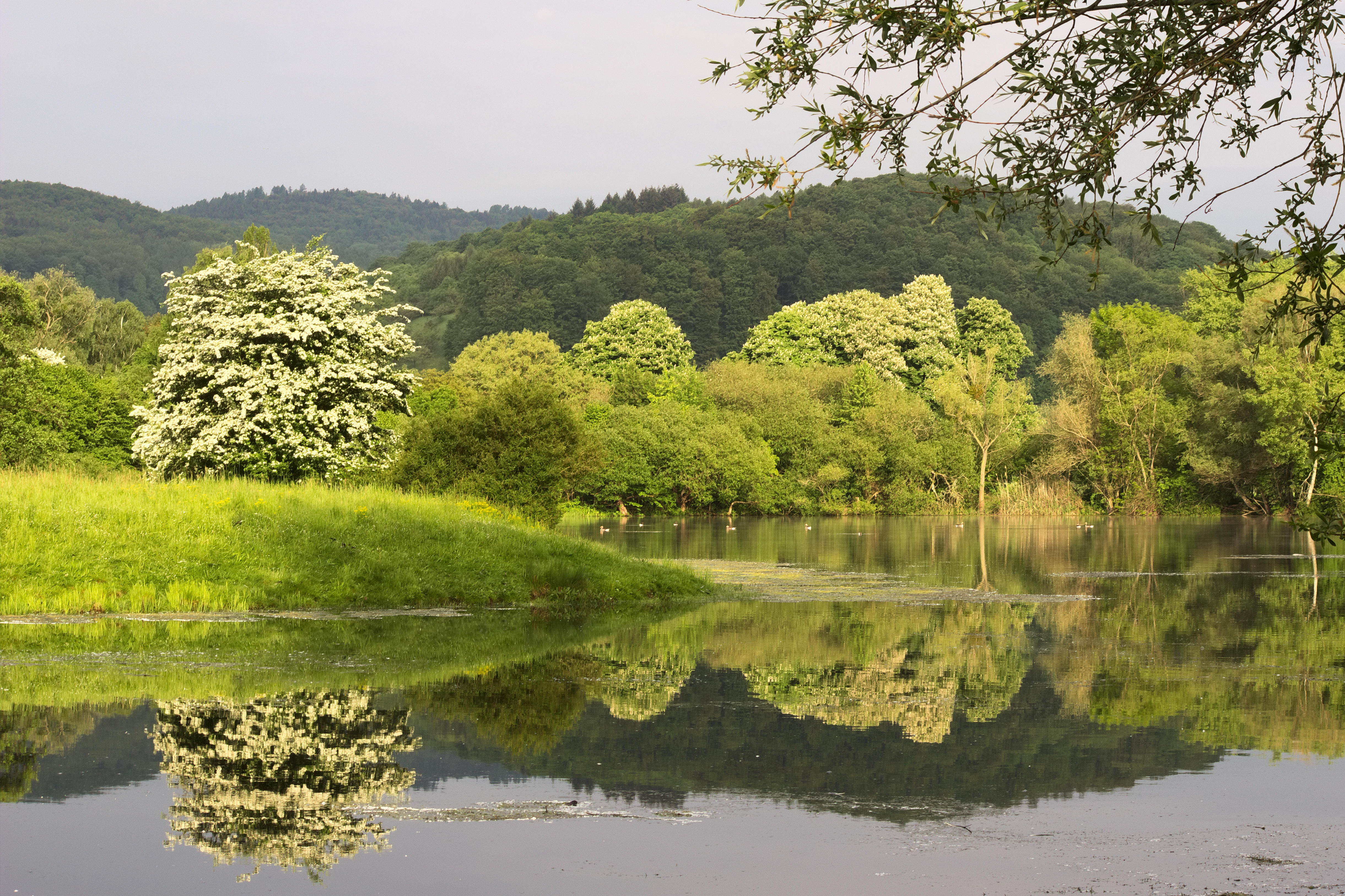 "Freudenthal bei Witzenhausen" nature reserve in Hesse, Germany